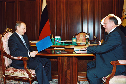 THE KREMLIN, MOSCOW. With the head of the Communist Party faction in the State Duma Gennady Zyuganov.